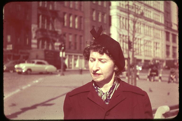 "Photography of Lucille Wallenrod, New York", Photo taken by husband of artist, his son (author) owns and is free to give copyright to the original work.